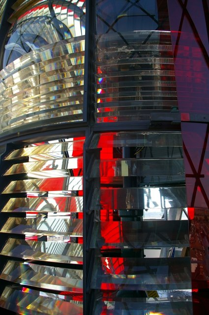 Lighthouse lens For technical specification and history